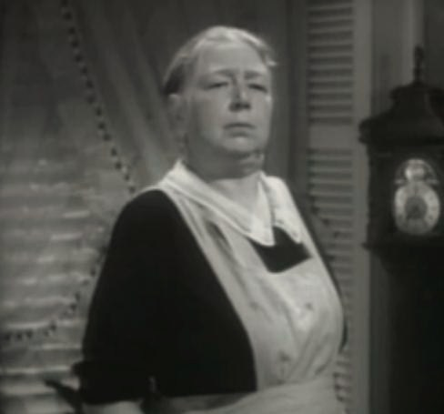 Esther Dale in Made for Each Other - cropped screenshot